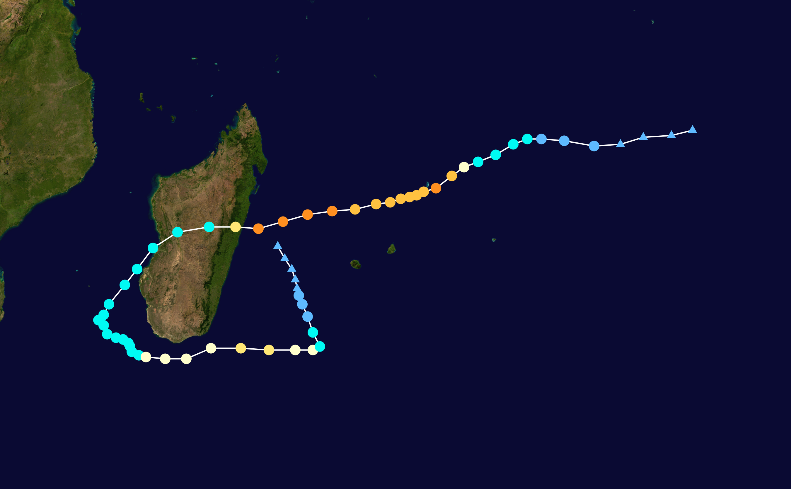 Track map of Intense Tropical Cyclone Giovanna of the 2011-12 South West Indian Ocean cyclone season. The points show the location of the storm at 6-hour intervals. The colour represents the storm's maximum sustained wind speeds as classified in the Saffir–Simpson scale (see below), and the shape of the data points represent the nature of the storm, according to the legend below. Saffir–Simpson scale Tropical depression≤38 mph≤62 km/h Category 3111–129 mph178–208 km/h Tropical storm39–73 mph63–118 km/h Category 4130–156 mph209–251 km/h Category 174–95 mph119–153 km/h Category 5≥157 mph≥252 km/h Category 296–110 mph154–177 km/h Unknown Storm type Tropical cyclone Subtropical cyclone Extratropical cyclone / Remnant low / Tropical disturbance / Monsoon depression